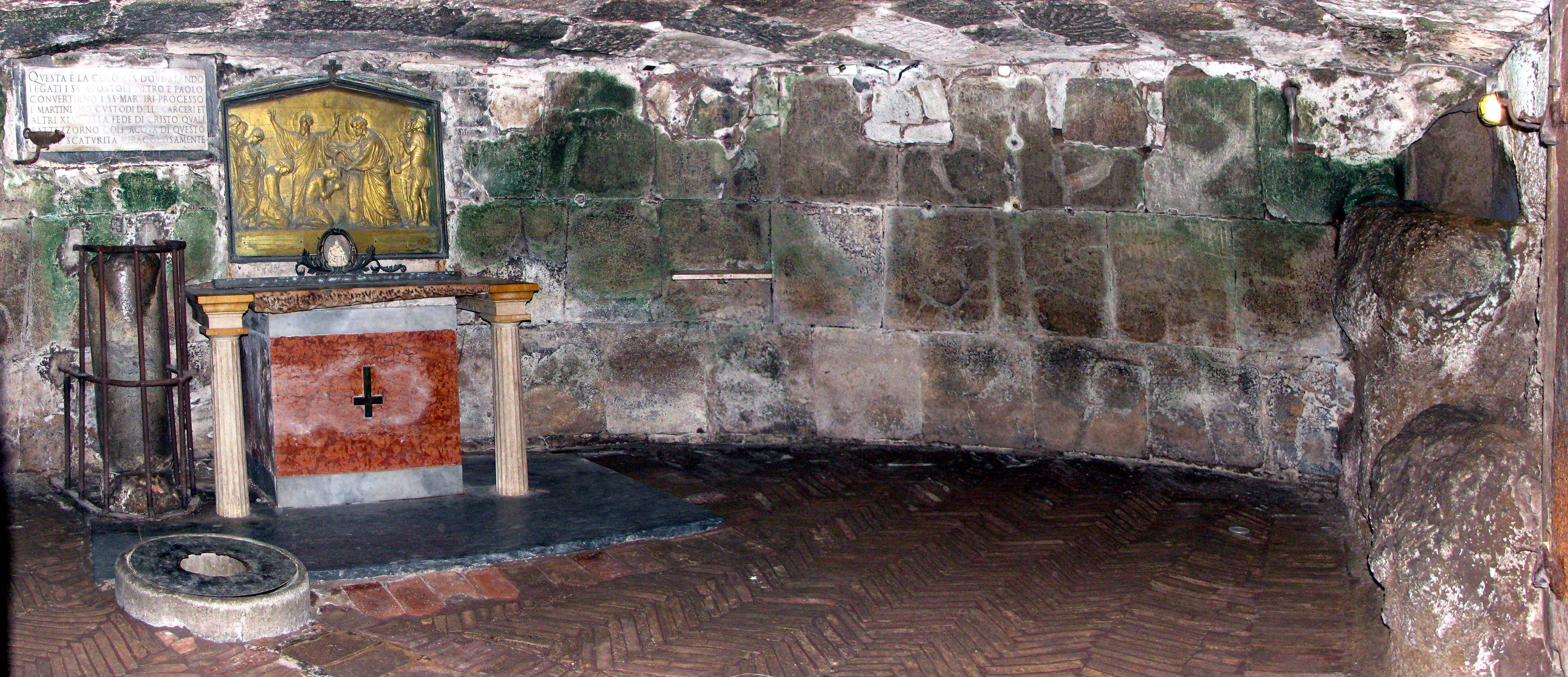 View of the Mamertine prison in Rome (Carcere Mamertinum) near the Forum Romanum, Rome.